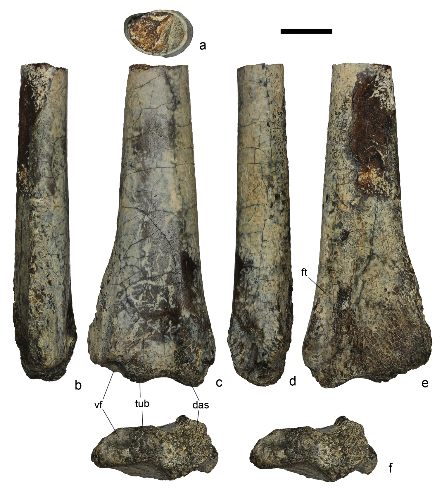 Azhdarcho sp., ZIN PH 56/43, distal fragment of a right ulna in proximal (a), ventral (b), posterior (c), dorsal (d), anterior (e), and distal (f, stereopair) views. This specimen is from the Tyulkili locality in the northeastern Aral Sea region of Kazakhstan; Zhirkindek Formation, Upper Cretaceous (upper Turonian – Coniacian). Abbreviations: das, dorsal articulation surface; ft, groove for flexor tendon; tub, tuberculum; vf, ventral fovea. Scale bar is 10 mm.